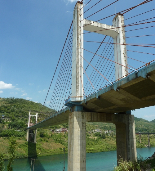 The Zunyi Bridge in Guizhou province, China